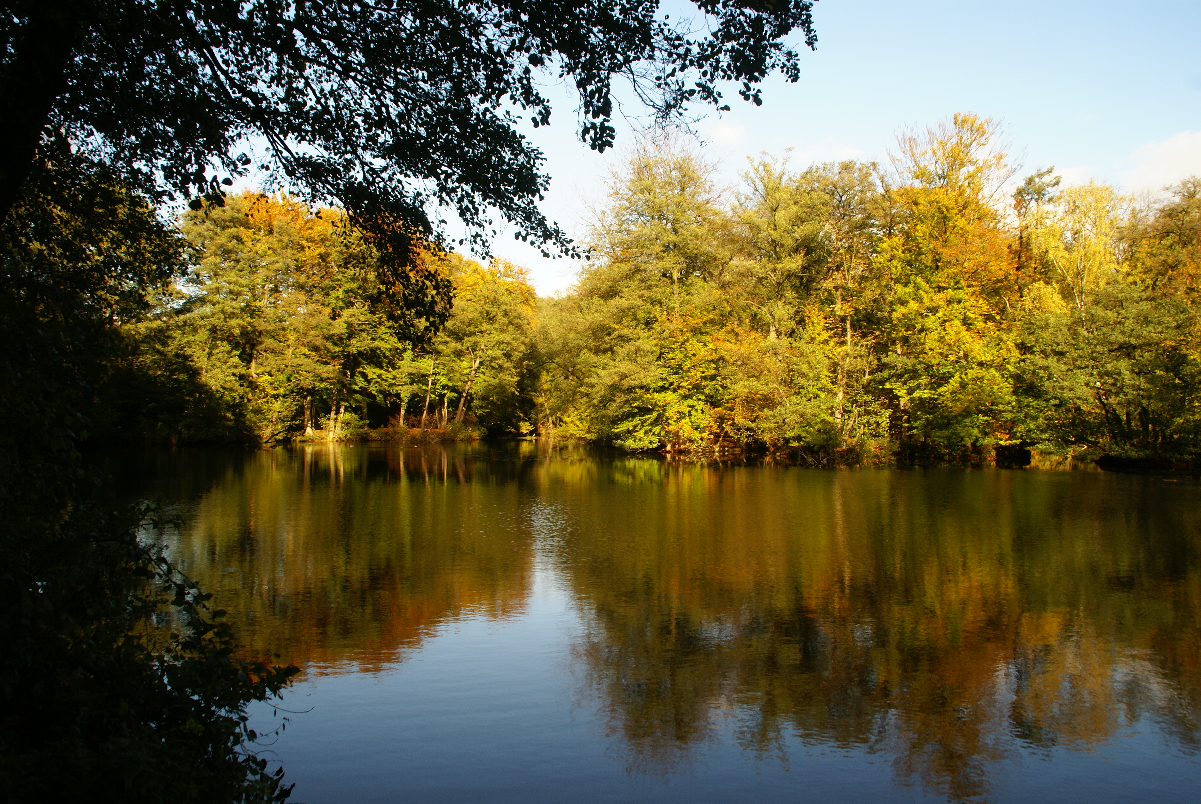 Hamburg (Ohlstedt), Germany: The pond Rodenbeker Teich in the natural reserve Rodenbeker Quellental